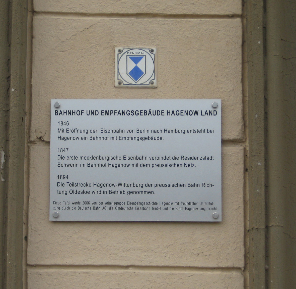 Hagenow Land train station heritage plaque